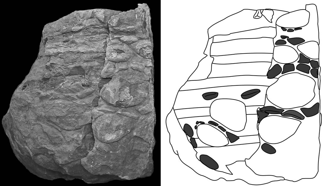 An ankylosaurid dinosaur Tarchia cf. gigantea, ZPAL MgD I/113 from the Nemegt Formation at Altan Uul III, Mongolia. A. Dorsal view of the trunk. Skin impressions and osteoderms are visible on the trunk. Osteoderms are positioned in situ along the vertebral column. The specimen only represents the posterior part of the trunk. B. Interpretive drawing of osteoderms (white) and scale imprints (grey).